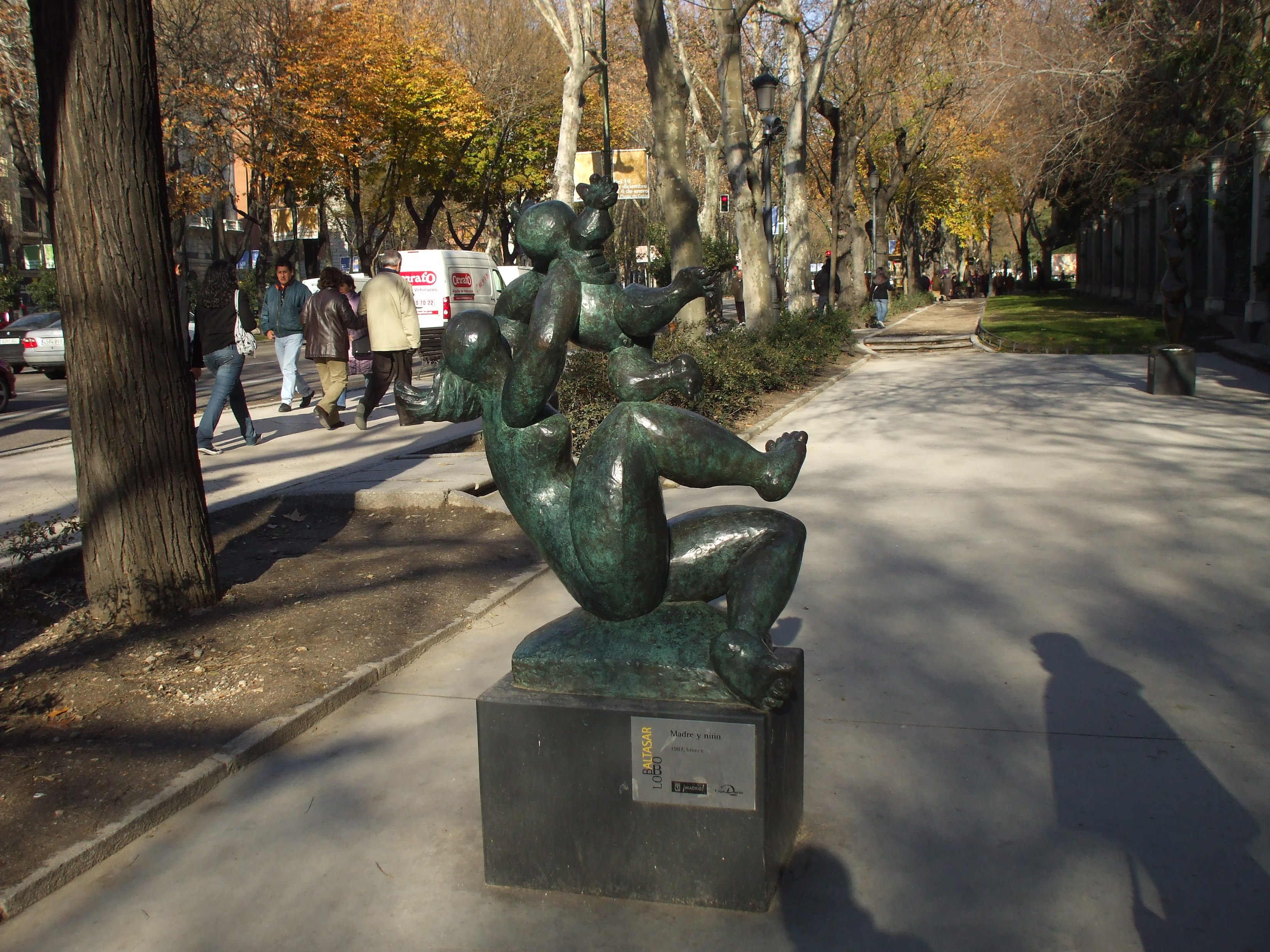 Baltasar Lobo work of mother and child in Madrid on 16 December 2008